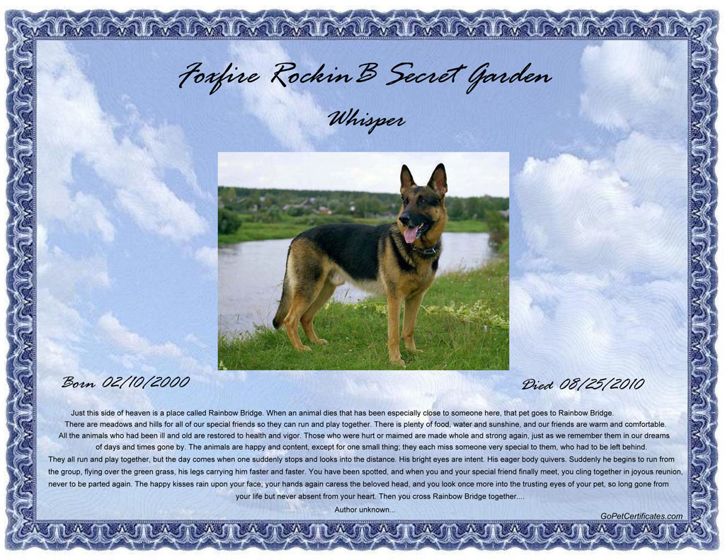 Example of Pet Death Certificate